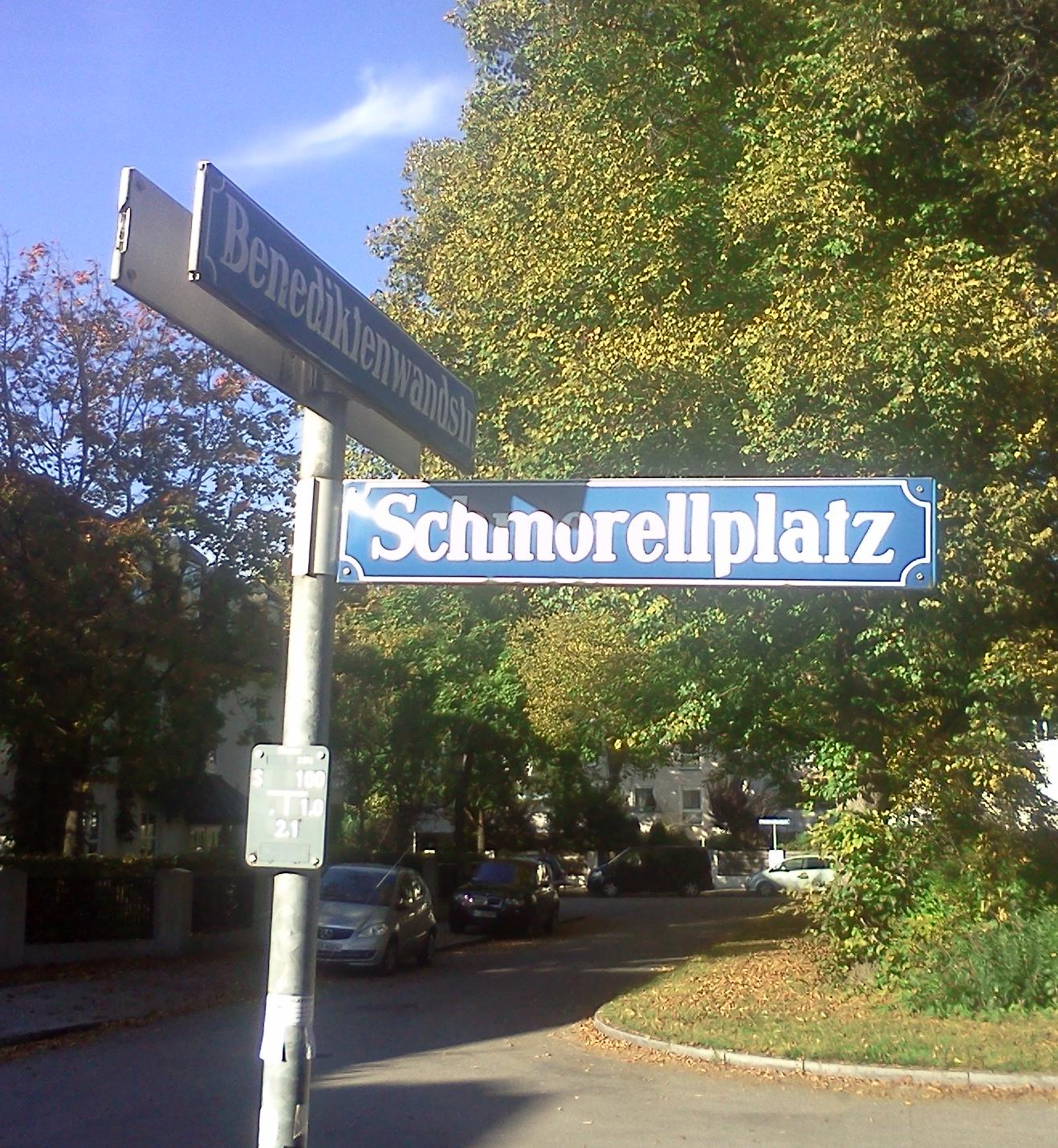 Street name plate in Munich-Harlaching, 2010